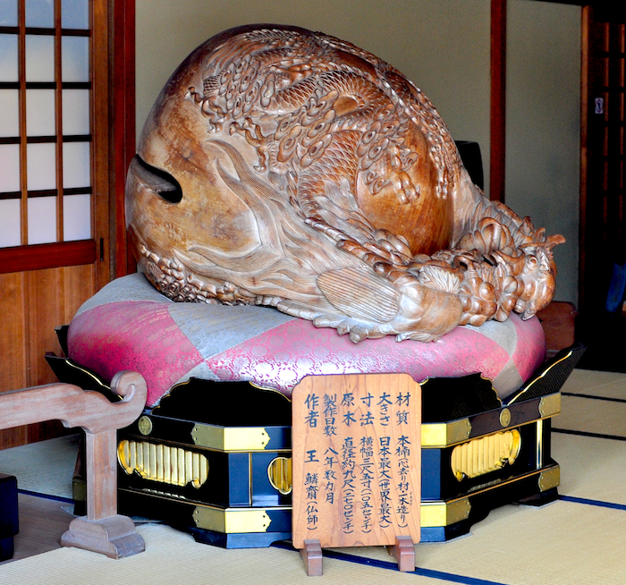 Largest Mokugyo in the world, located at Hasedera Temple in Kamakura.